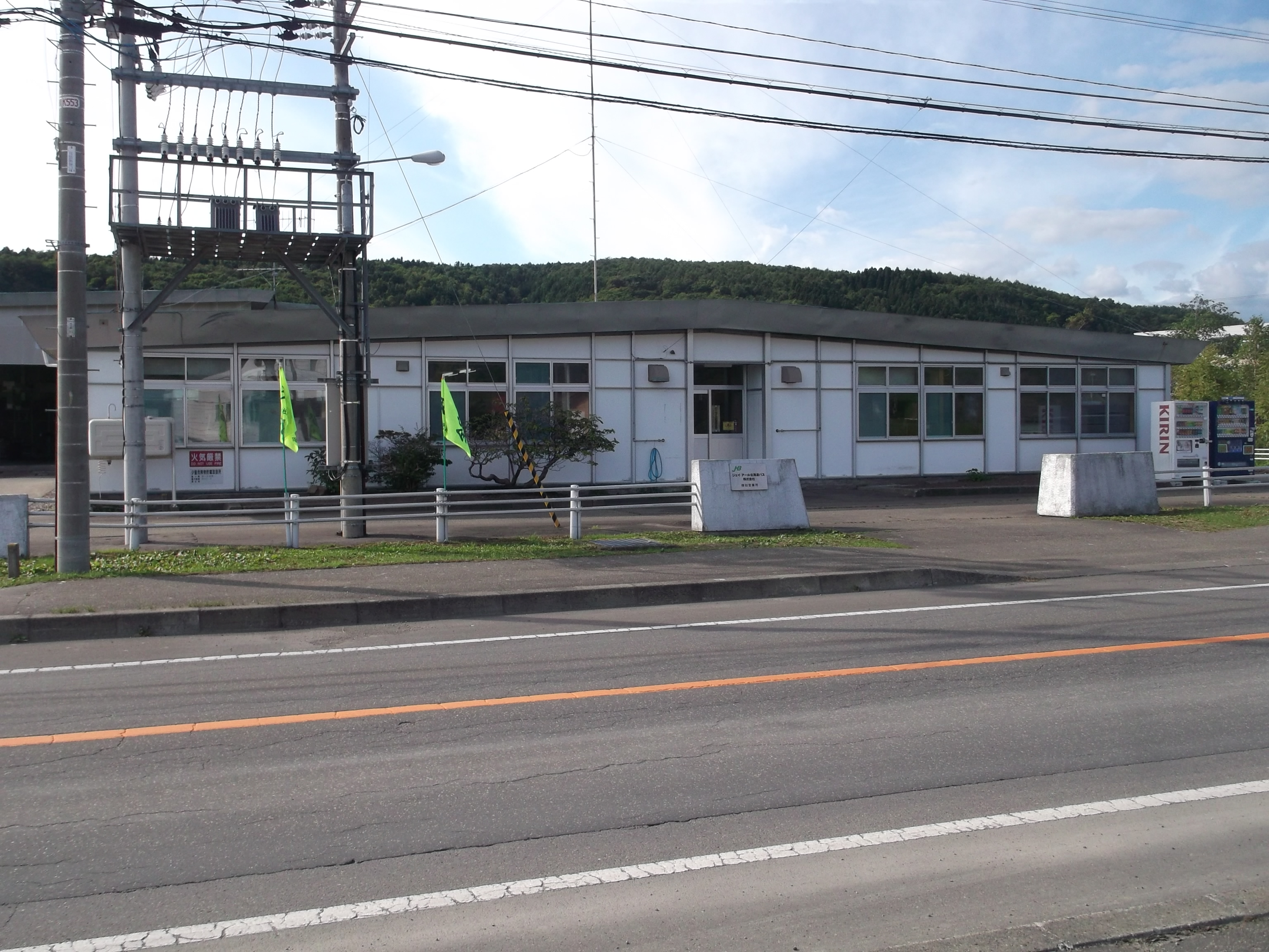 JR Hokkaido Bus Samani Depot